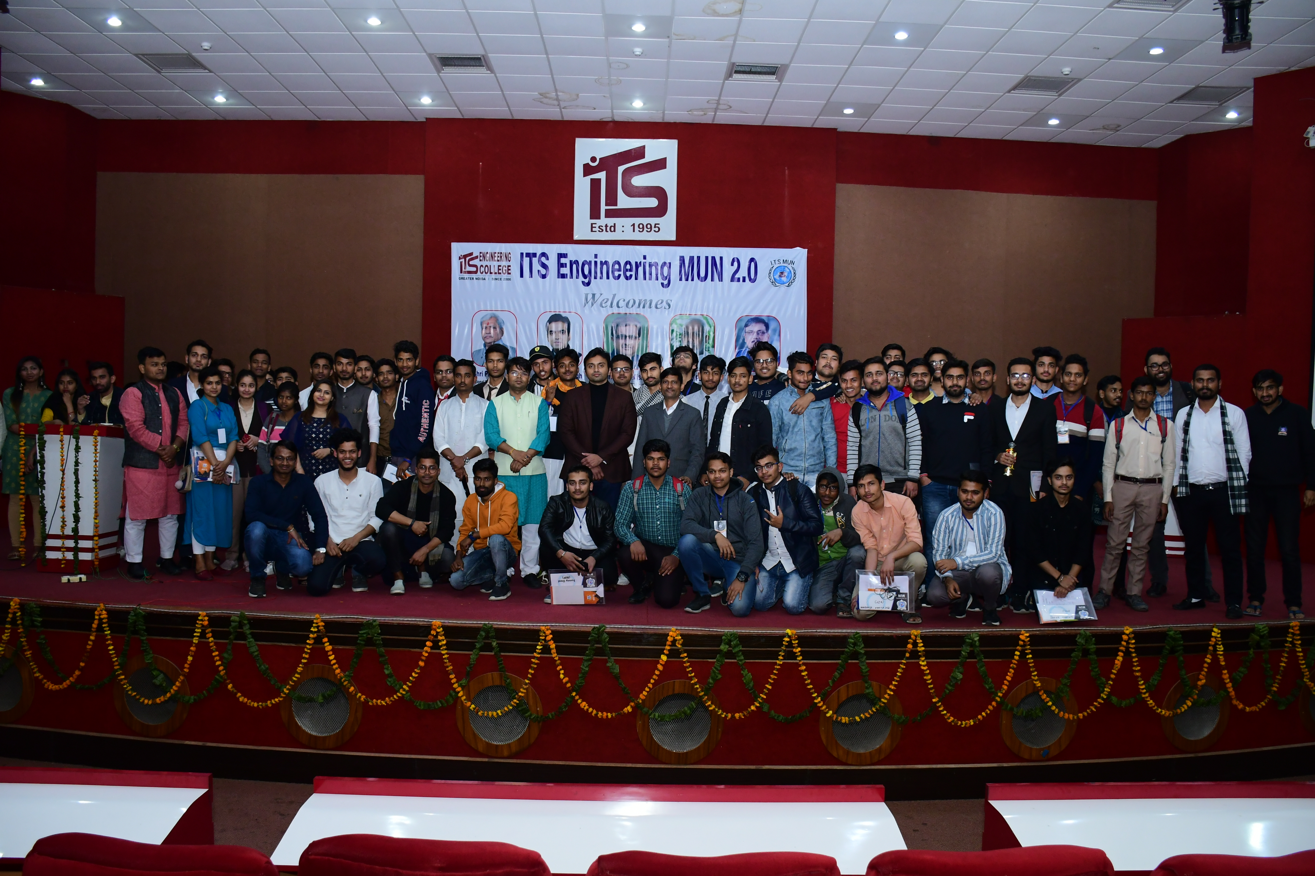 Model United Nations 2020 event at ITS Engineering College